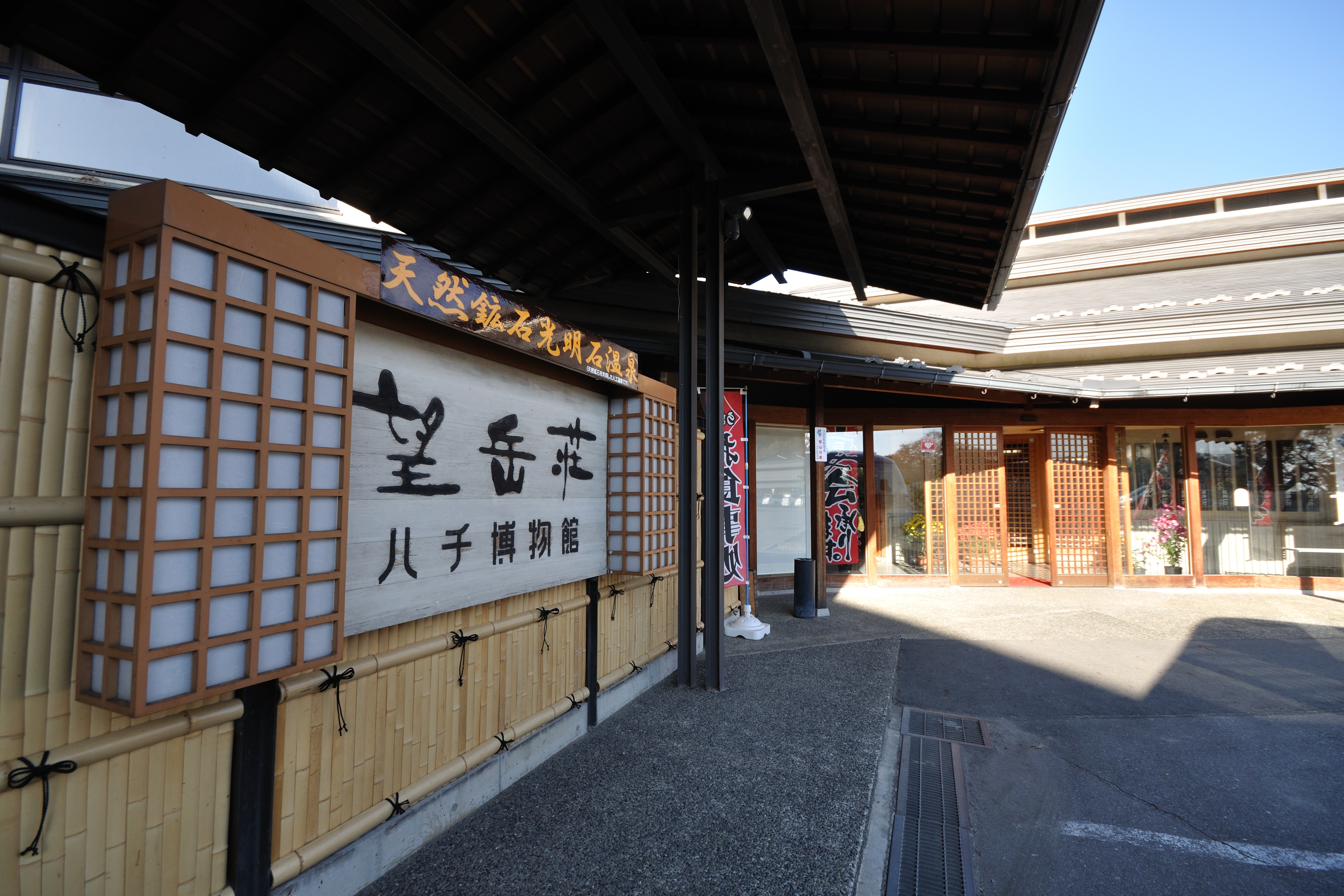 Photograph of Bougakusou exterior, is hotel in Nakagawa Village, Nagano Prefecture, this photo date is November 8, 2009.